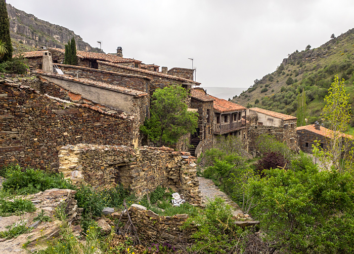 Patones de Arriba. Arquitectura negra de pizarra.